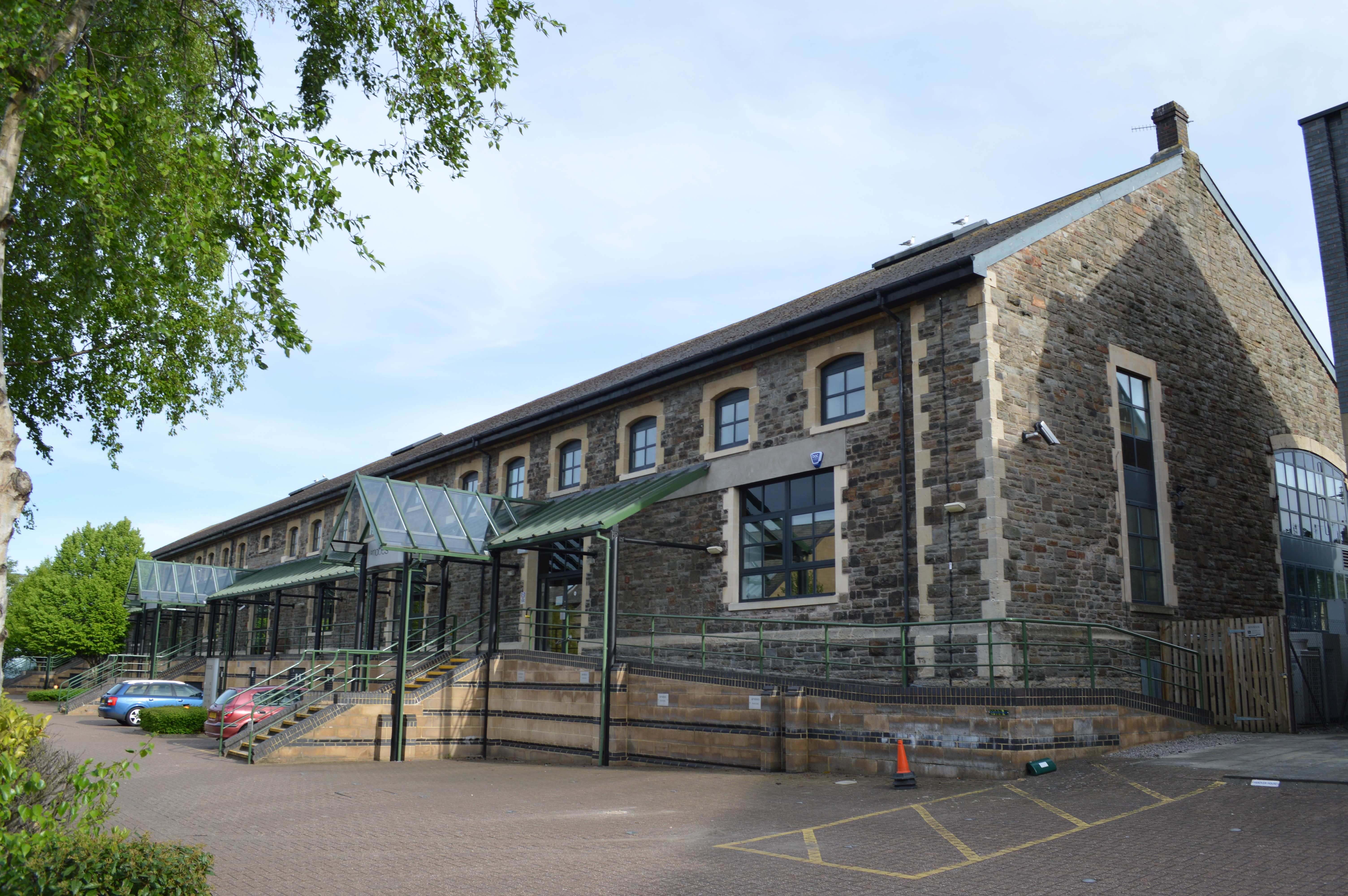 The former Westmoreland Road goods shed, Bath, from The Square, an office development on the site of the former Westmoreland Road goods yard. Note the former train entrance, now glassed over, on the right edge of the photo. Now occupied by the Amdocs software and services company, and has been known as Cramer House.